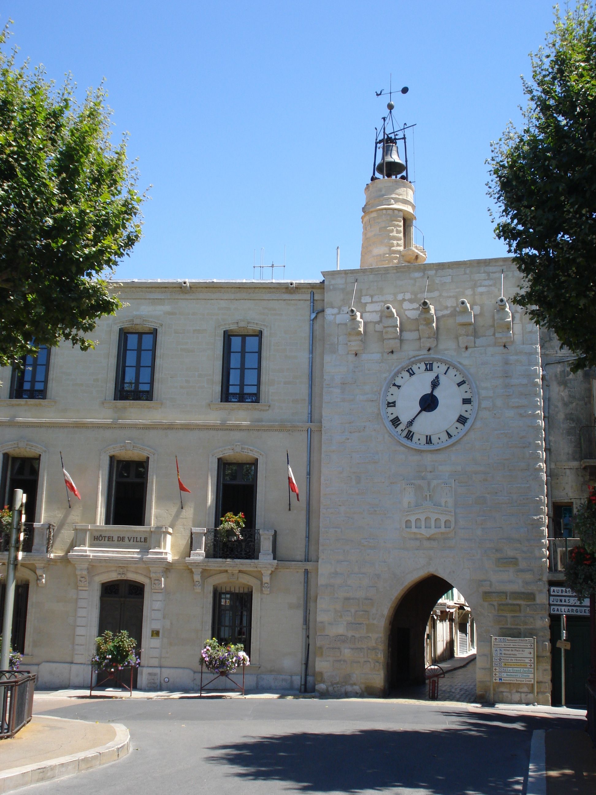 Sommières (Gard, Fr) town hall, city gate and belfry